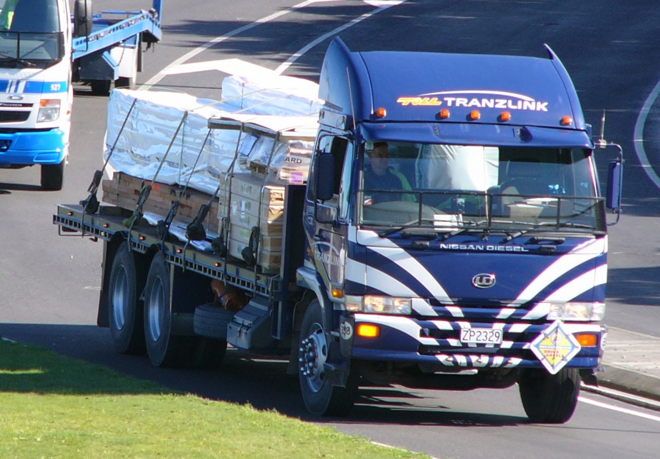 UD truck in New Zealand.